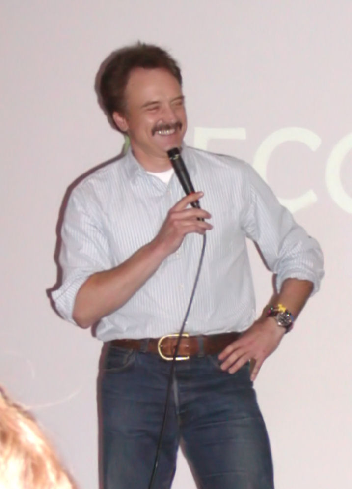 Bradley Whitford speaking to supporters of Al Franken in Saint Paul, Minnesota